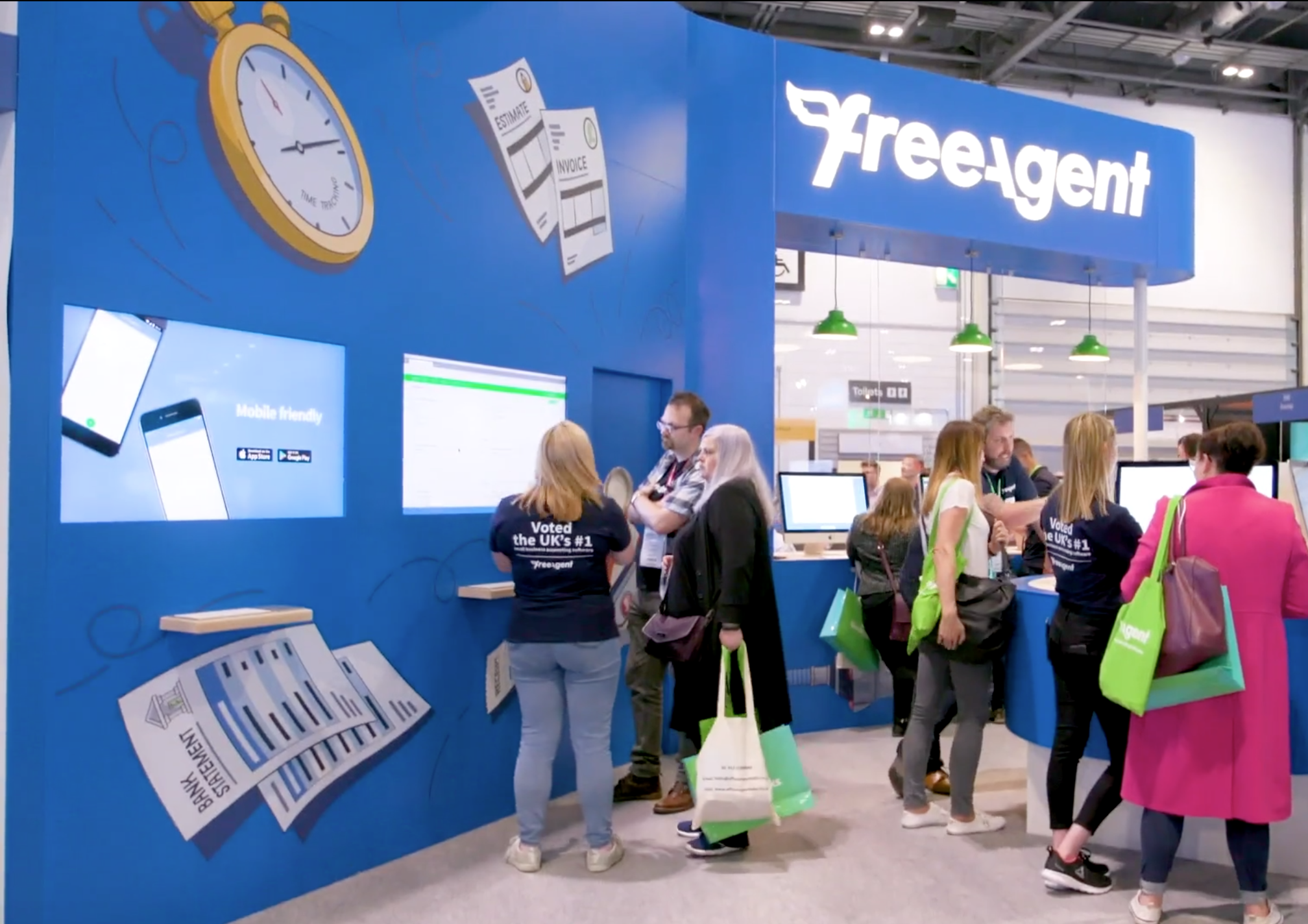 Photograph of the FreeAgent team at Accountex 2019